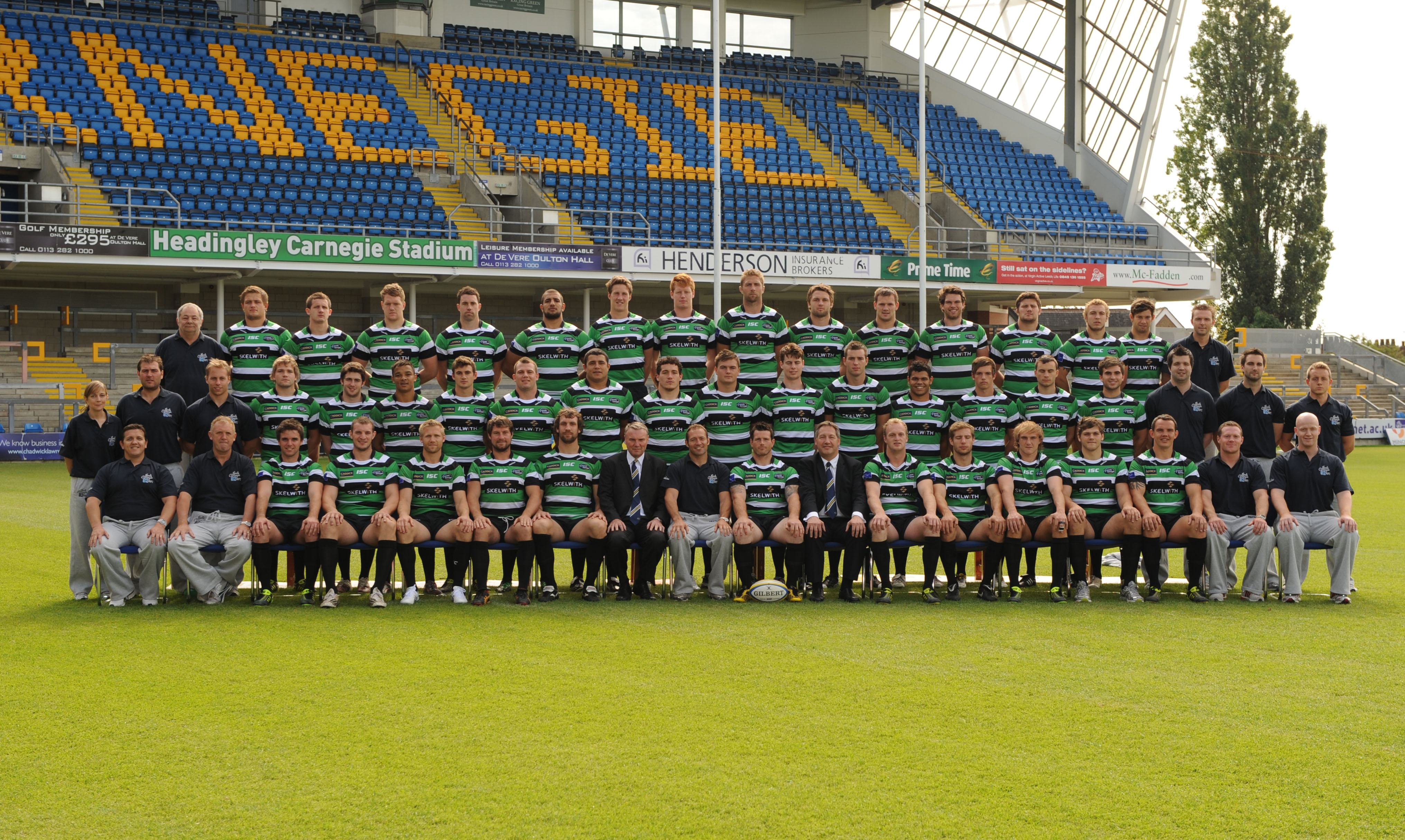 Leeds Carnegie 2011-12 Official Team Photo